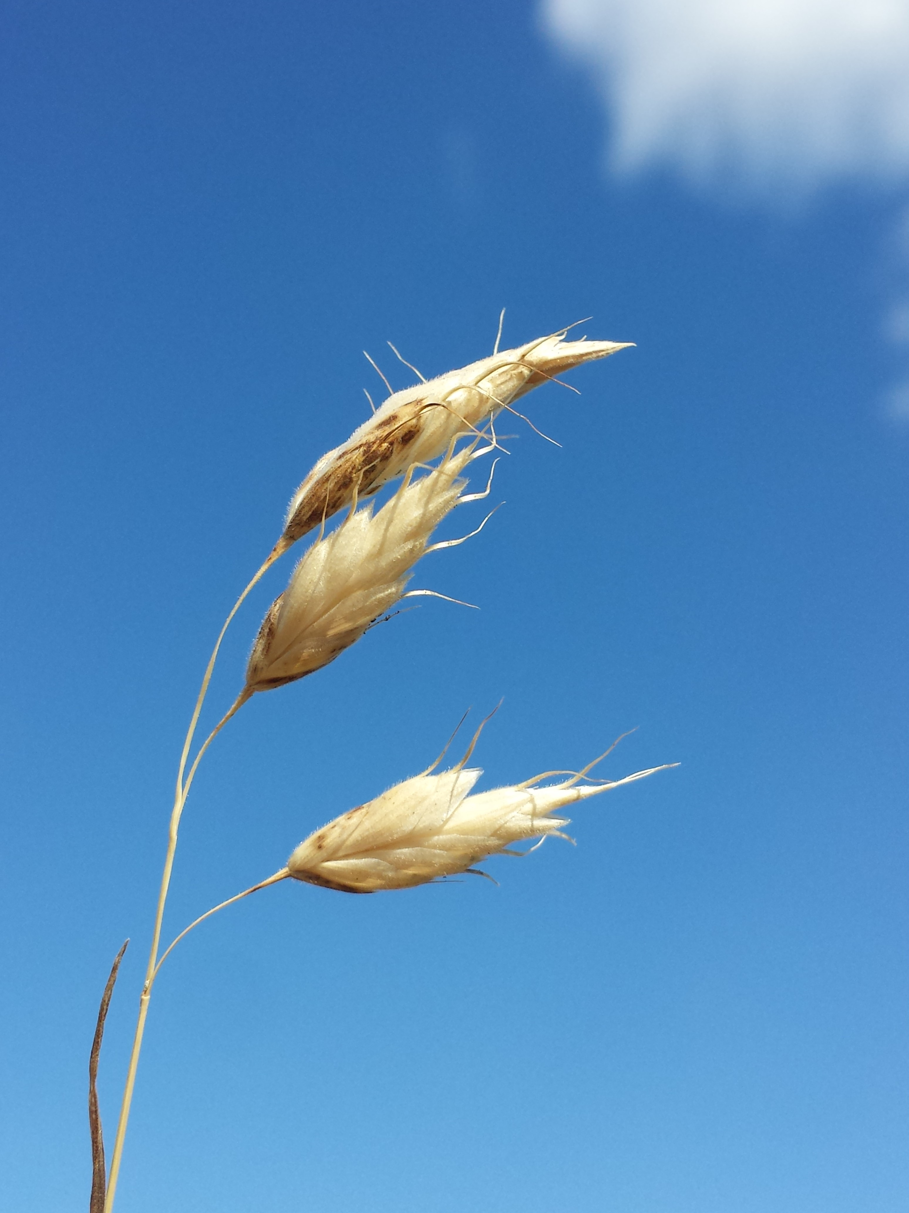 Panicle Taxonym: Bromus squarrosus ss Fischer et al. EfÖLS 2008 ISBN 978-3-85474-187-9 Location: Braunsberg next to Hainburg, district Bruck an der Leitha, Lower Austria - ca. 330 m a.s.l. Habitat: dry-grassland